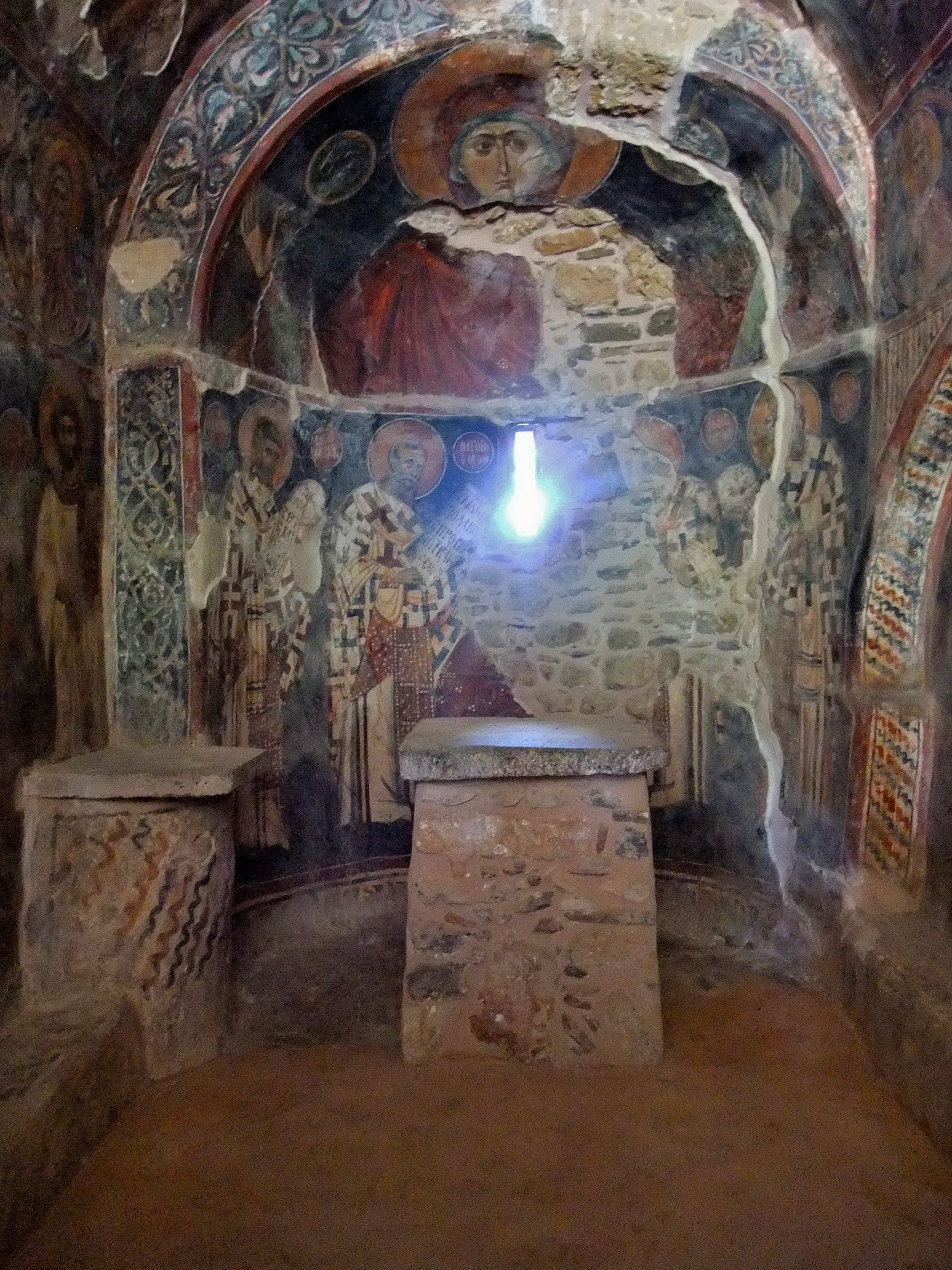 Interior of Panagia Kera, church of Kritsa, Crete, Greece